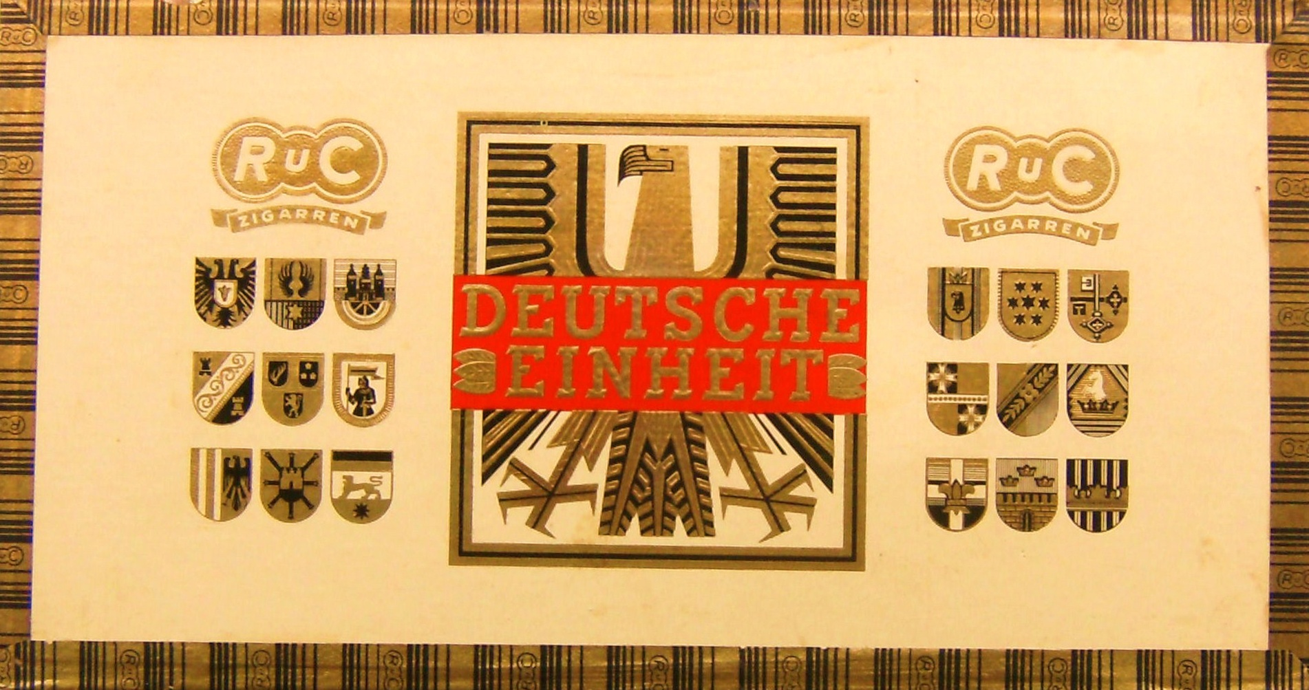 "Deutsche Einheit" 50 Pfennig - Cigar-box, Rinn & Cloos cigars manufactury in Heuchelheim, ca. 1965.